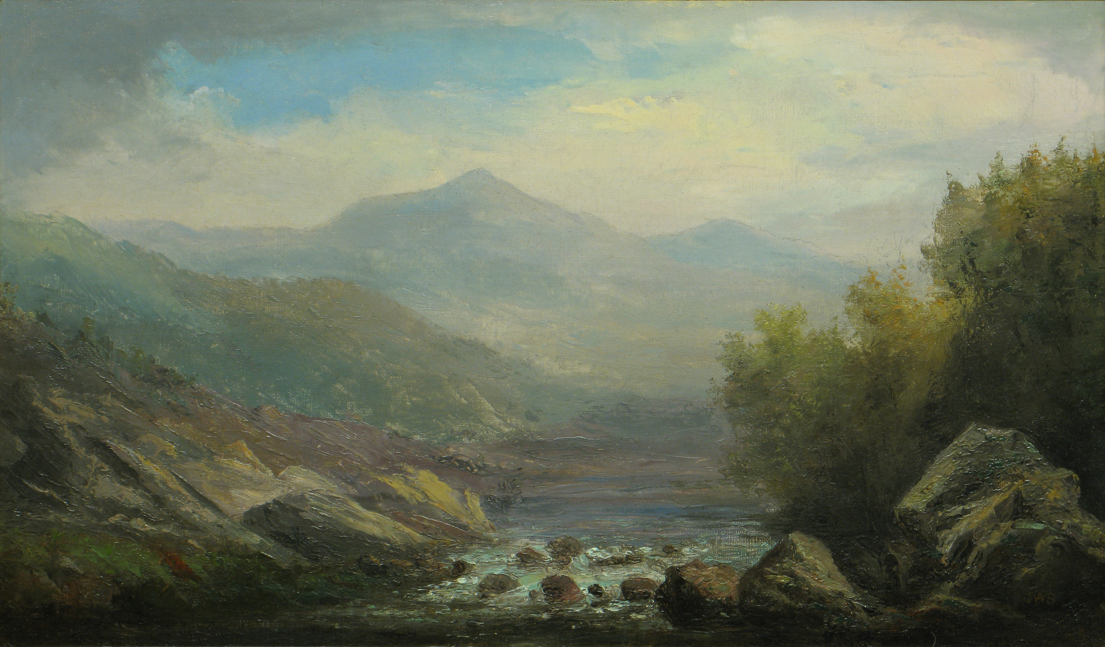 Wildcat Brook, Jackson, New Hampshire by John White Allen Scott, oil on canvas, 12 x 20 inches